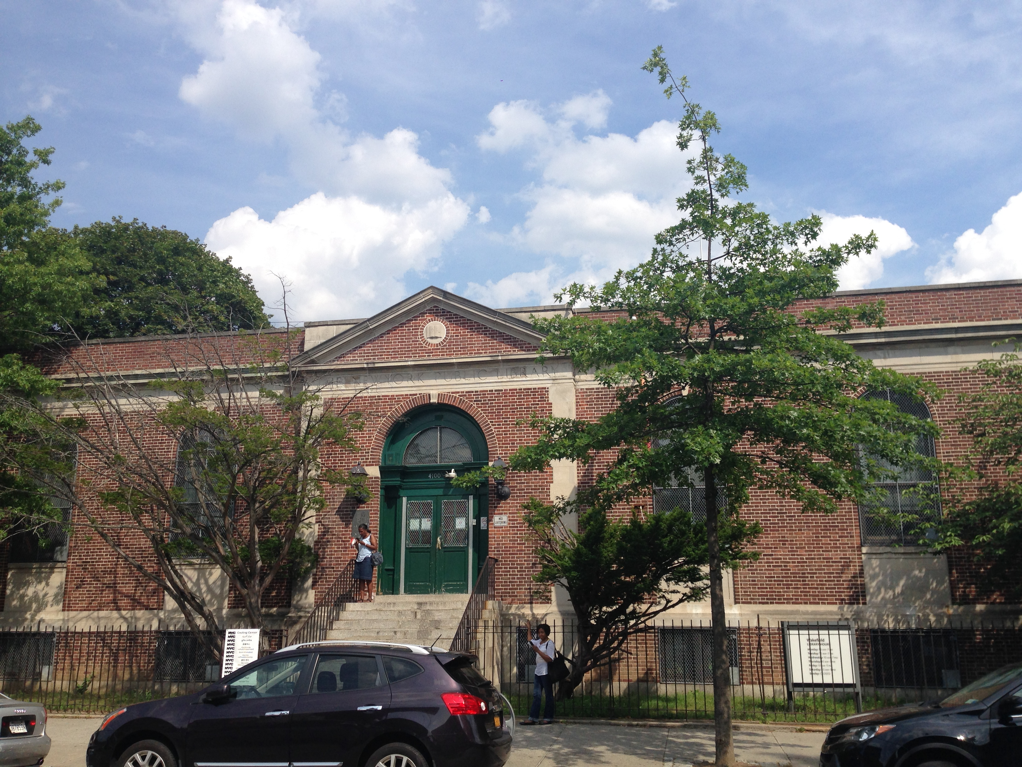 New York Public Library Wakefield Branch at 4100 Lowerre Place, Bronx, NY